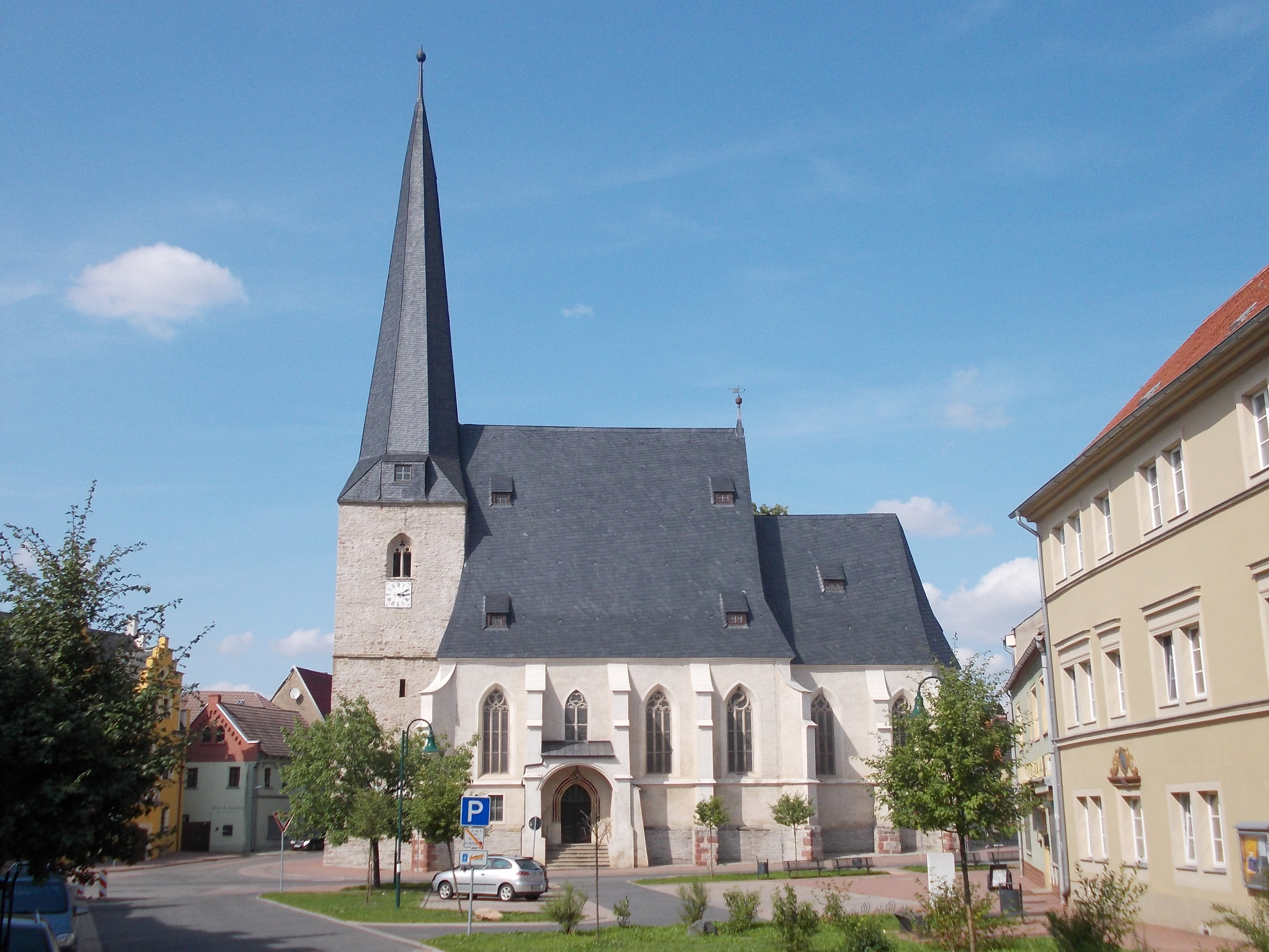 St. Mary's Church in Sandersleben/Anhalt (Arnstein, district of Mansfeld-Südharz, Saxony-Anhalt)